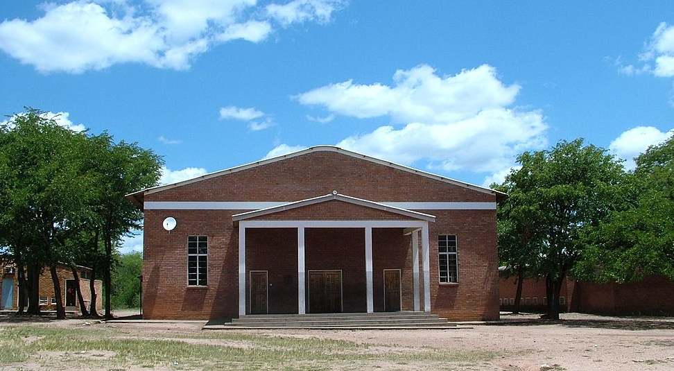 Hall Dete, trimmed